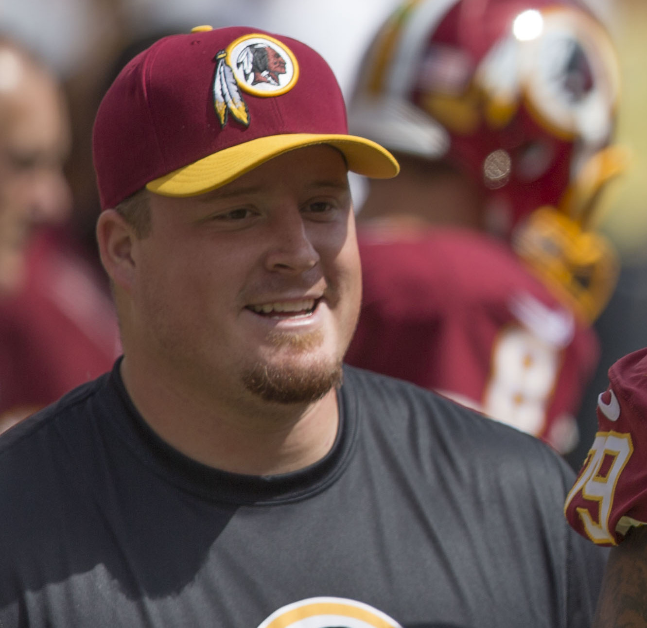 Washington Redskins guard, Spencer Long, at a game against the Miami Dolphins on September 13, 2015.